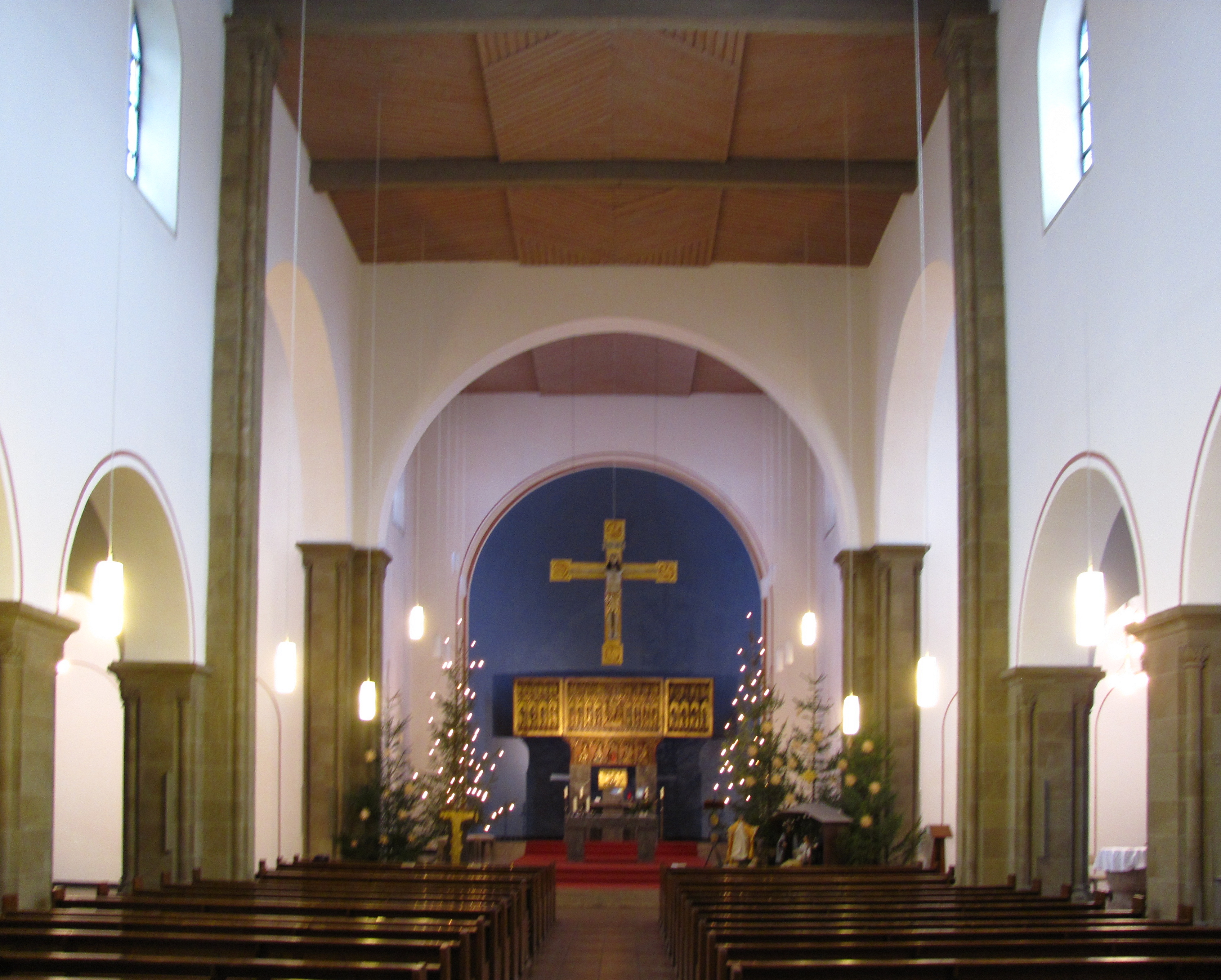 Saint Bernward's Church, Hildesheim, Germany.